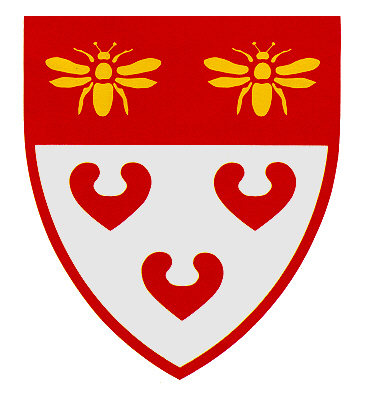 Coat of arms of Ladbergen. Blazon: Under a red shieldtop with two golden bees, in a silver field three (2 : 1) red nymphaea.